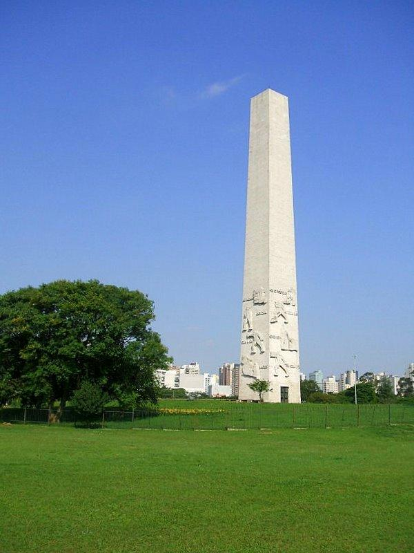 Obelisk of São Paulo Obelisco do Parque do Ibirapuera